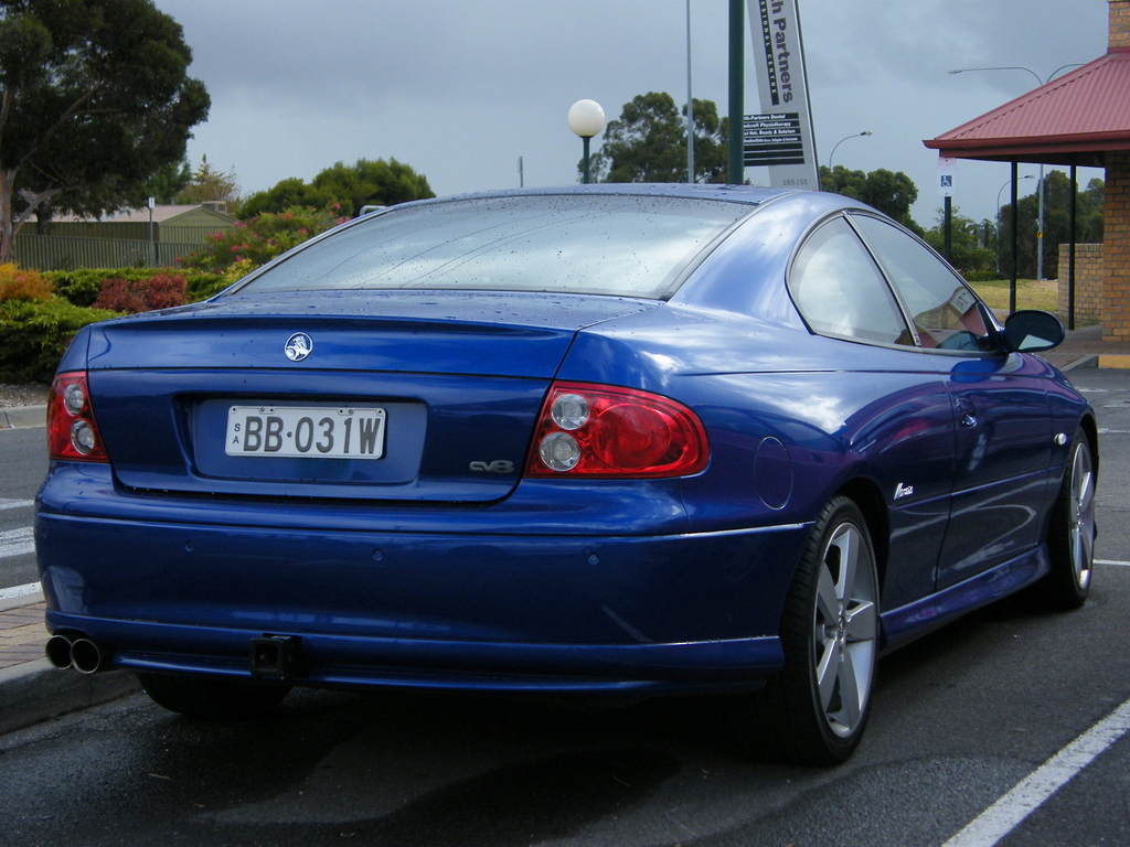 2003–2004 Holden Monaro (V2 III) CV8 coupe. Photographed in South Australia, Australia.